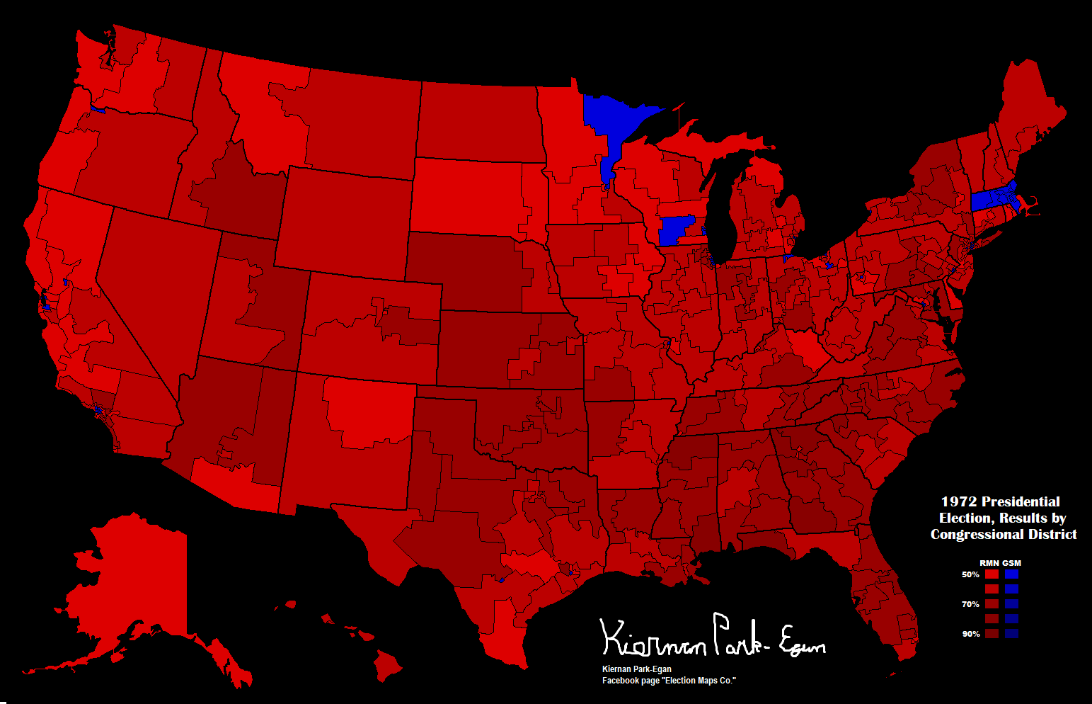 This map shows the 1972 Presidential Election results by Congressional District.